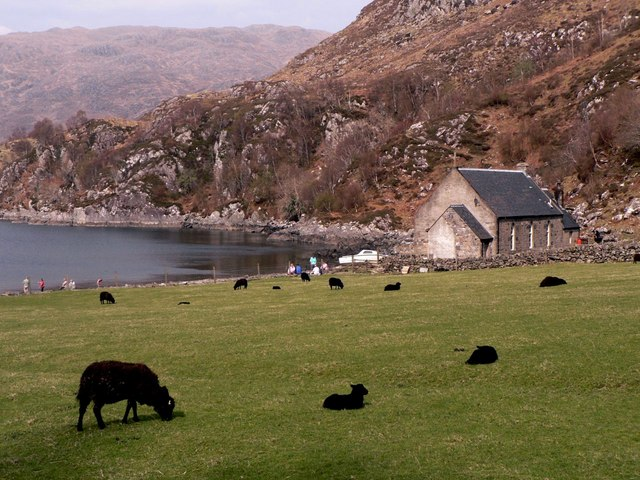 Tarbet, Loch Nevis Sheep graze in the field behind the former church, now a bunkhouse, while holidaymakers await the ferry to take them back to Mallaig.